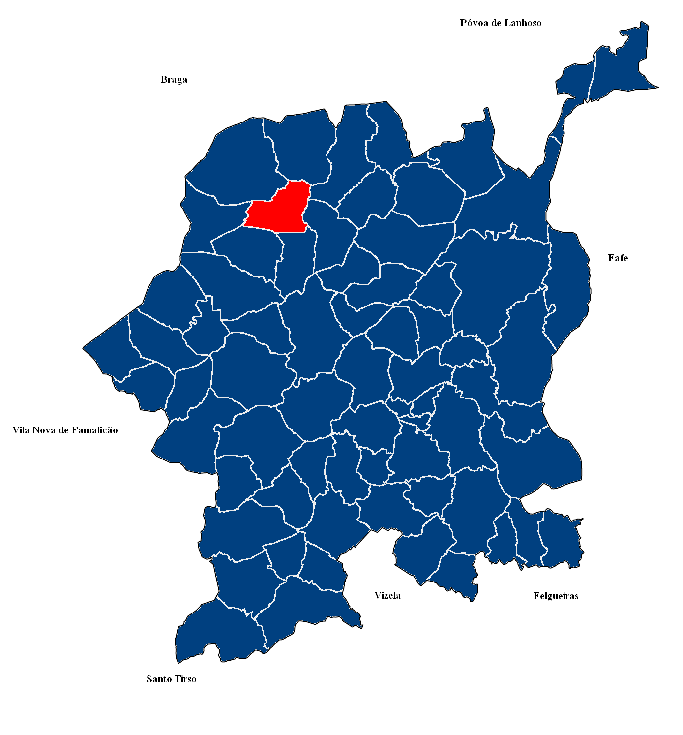 Map of Parish of São Lourenço de Sande, Guimarães, Portugal.